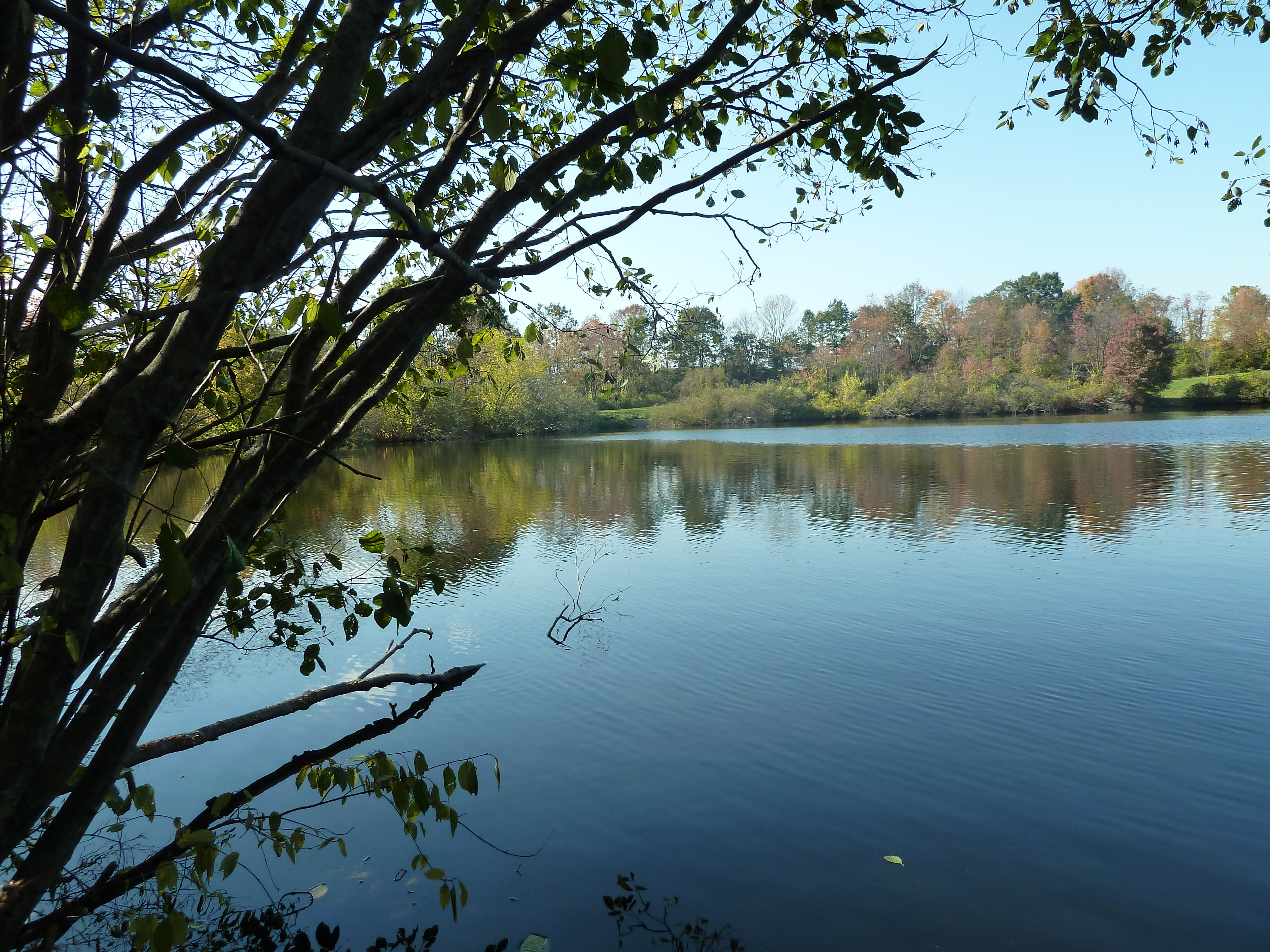 The lake in Baxter Reserve in North Salem, New York